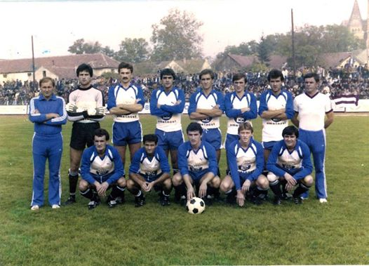 AIK Backa Topola in the 80s